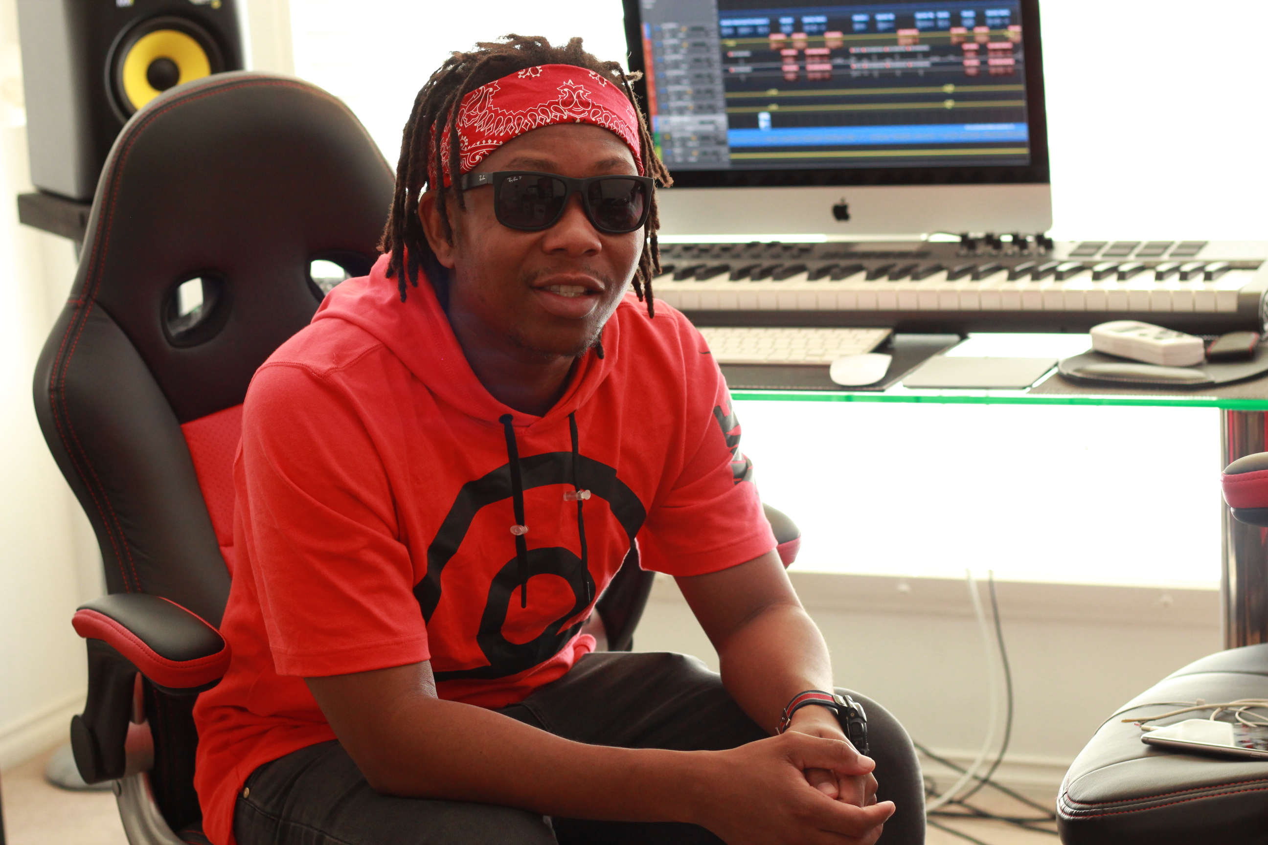 A photo of Desire Sibanda sitting in a studio